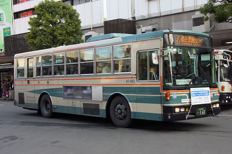 Seibu Bus's route bus (Car No.A0-680 / Nissan Diesel KC-UA460HSN / FHI 7E body) at Kichijoji Station, Musashino, Tokyo, Japan